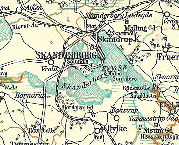 Map of Skanderborg Lake in Denmark